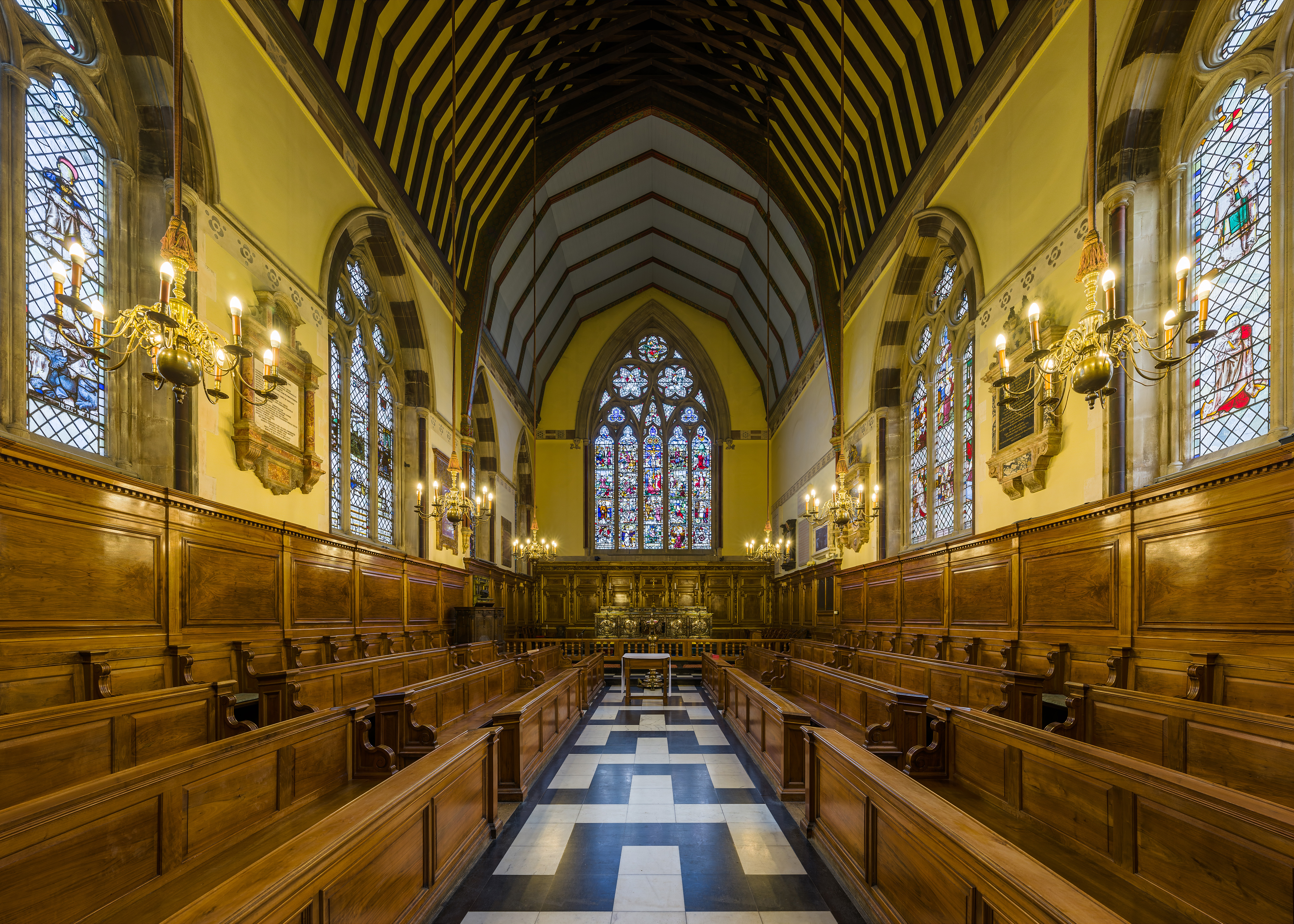 The chapel of Balliol College, Oxford, England.